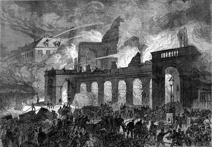 "Burning of the Old Opera House, Paris" (Illustrated London News, 8 November 1873, p. 223 [1]). The fire which destroyed the Salle Le Peletier occurred on 29 October 1873.